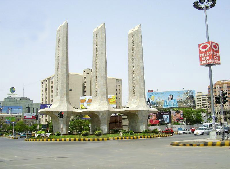 Adnan Asim's Karachi City. 3 Talwar ( Swords ) Clifton, Karachi